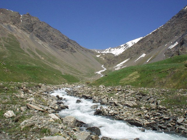 Torrent "Maurian"